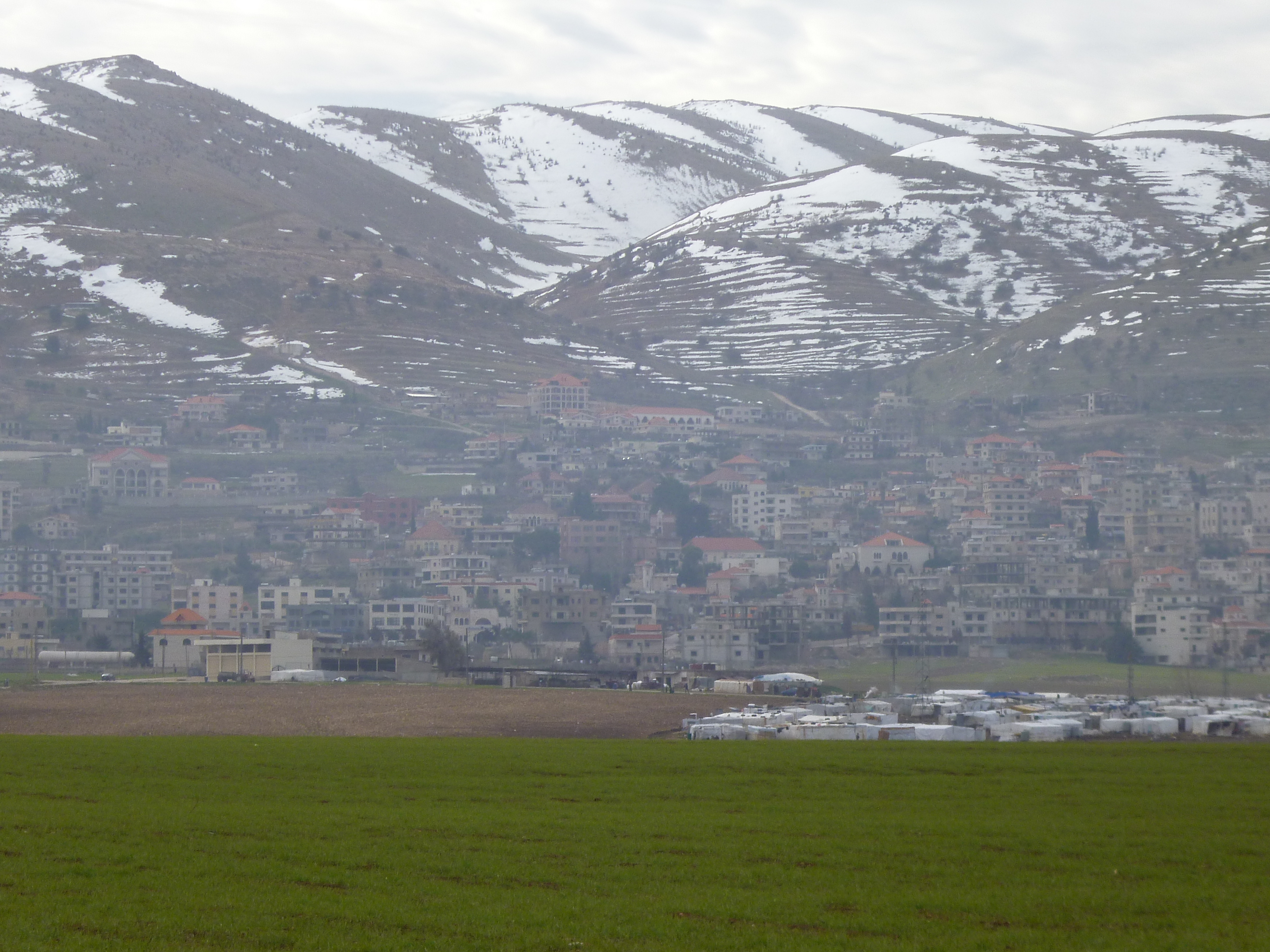 Joub Jannine. January 2015. Refugees bottom right.